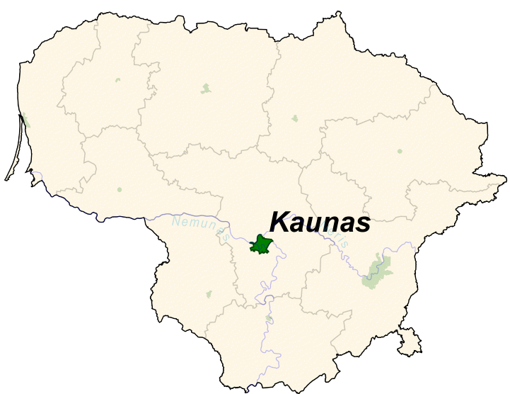 Kaunas on the map of Lithuania.